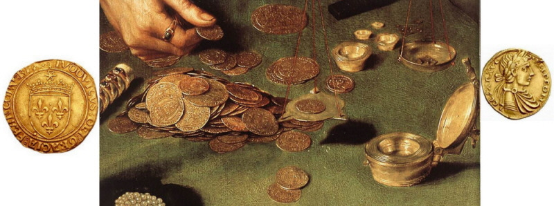 The Moneylender and his Wife